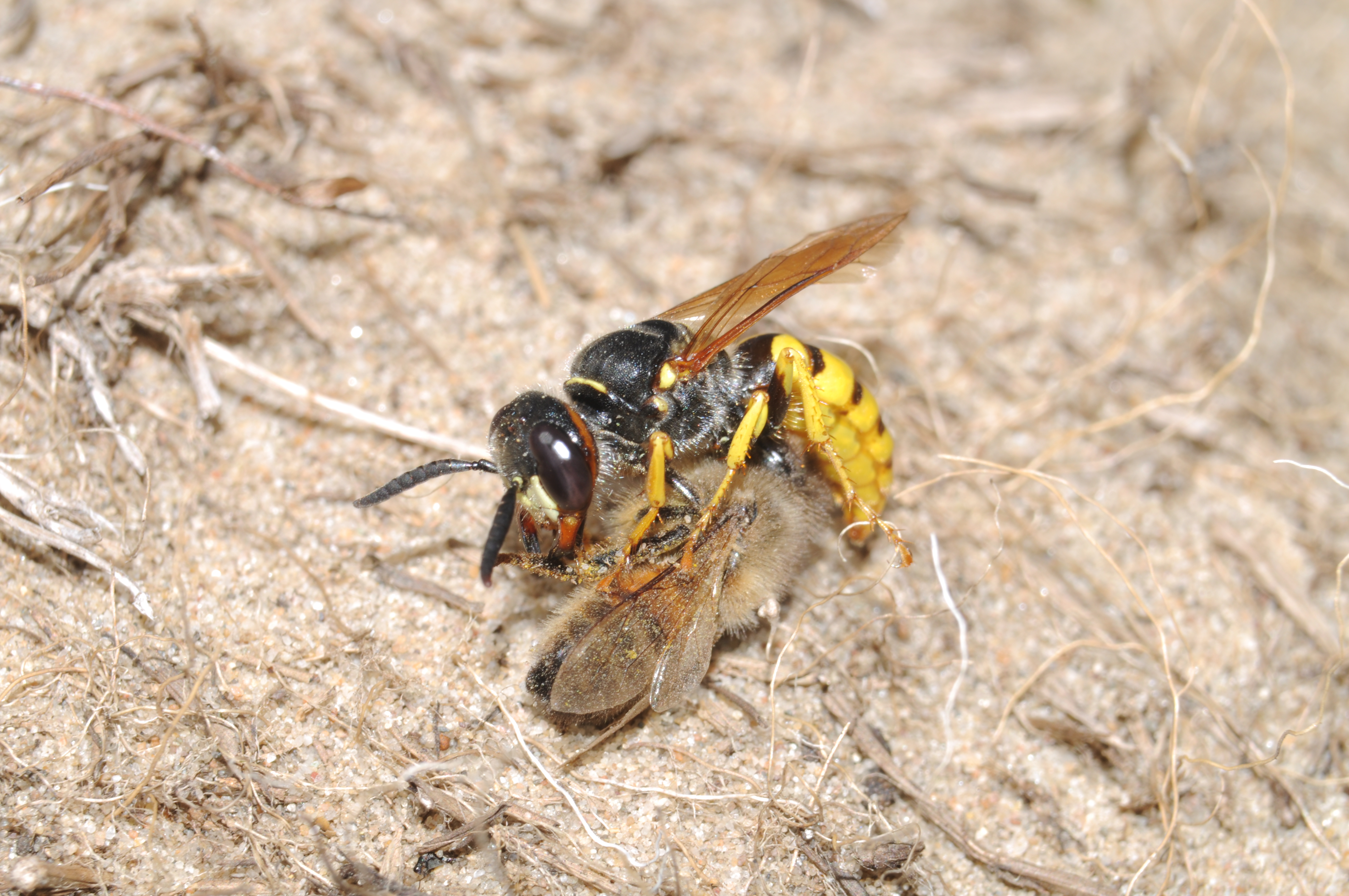 While mostly herbivorous, females of this species of wasp will paralyze honey bees (Apis mellifera) and place them next to her egg in an underground chamber, so that her offspring have a meal ready as soon as they are born. Location: Amsterdamse Waterleidingduinen